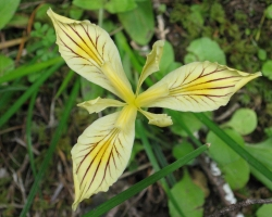 Yellow leaf iris (Iris chrysophylla)